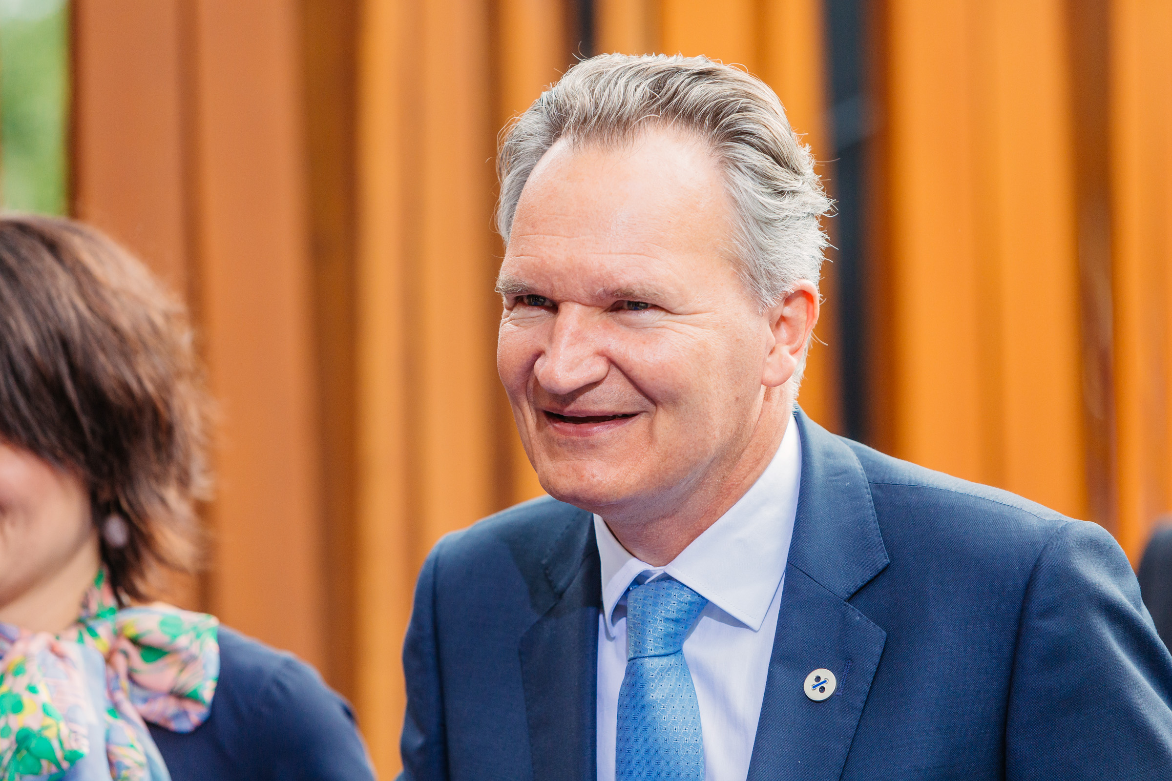 Robert-Jan Smits, Director General, European Commission Photo: Arno Mikkor (EU2017EE)